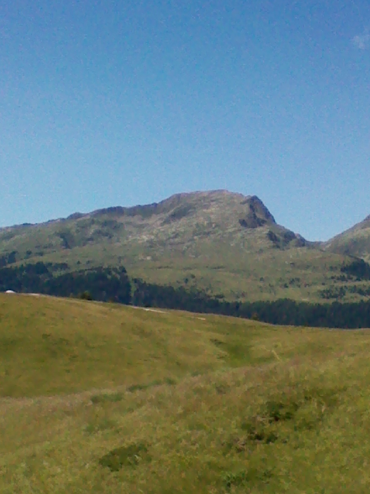 Cima Bocche view from passo Rolle